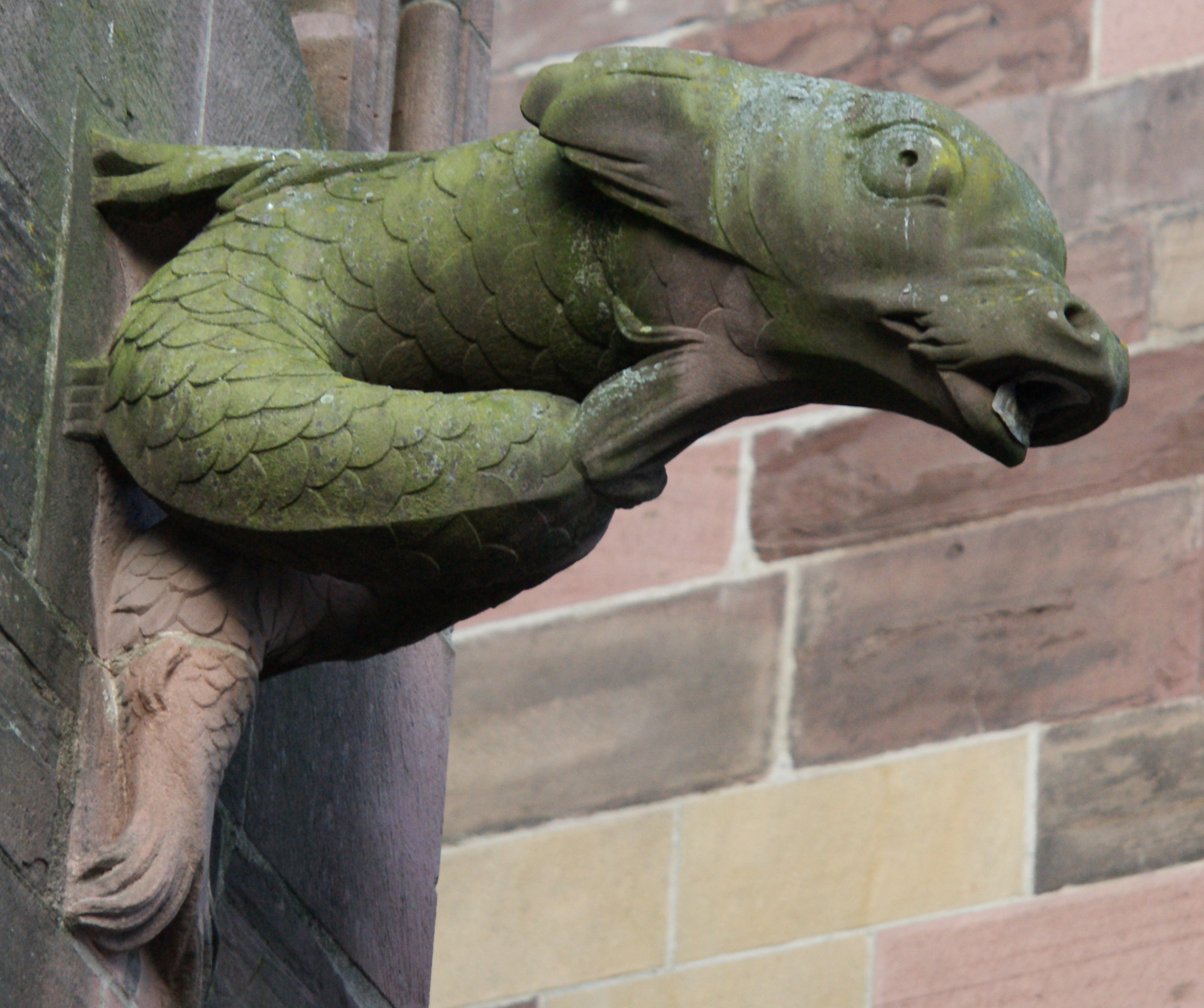 Exterior view and gargoyle of the Freiburg Minster, Freiburg im Breisgau in Germany. Fish-like creature as gargoyle.